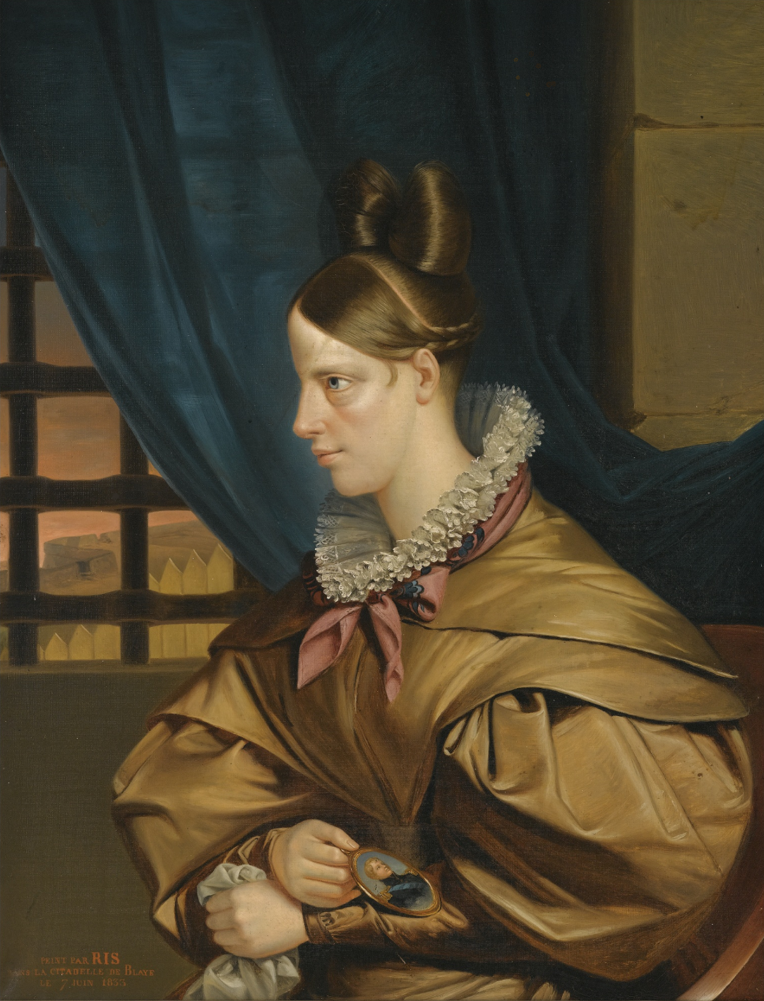 This is a portrait after a work by François Riss, depicting The Duchesse de Berry imprisoned following her unsuccessful rebellion in the Vendée in 1832. The work is a symbol of Legitimist ideology: aged by her treatment yet defiant, the Duchesse holds a miniature of her son the Duc de Bordeaux, the Legitimist heir to the throne of France. The original work was also circulated in a print by Gaulon with the composition reversed; an example is held in the Jeanvrot collection at the Musée des Beaux-Arts of Bordeaux.